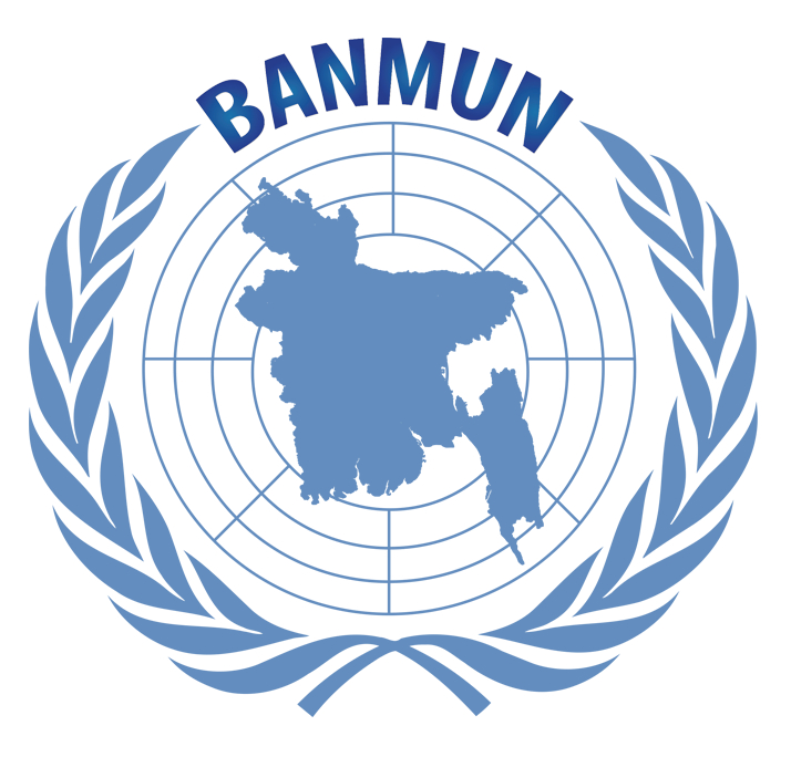 Bangladesh Model United Nations (BANMUN)is a Model United Nations conference organized by United Nations Youth and Student Organization Bangladesh every year.